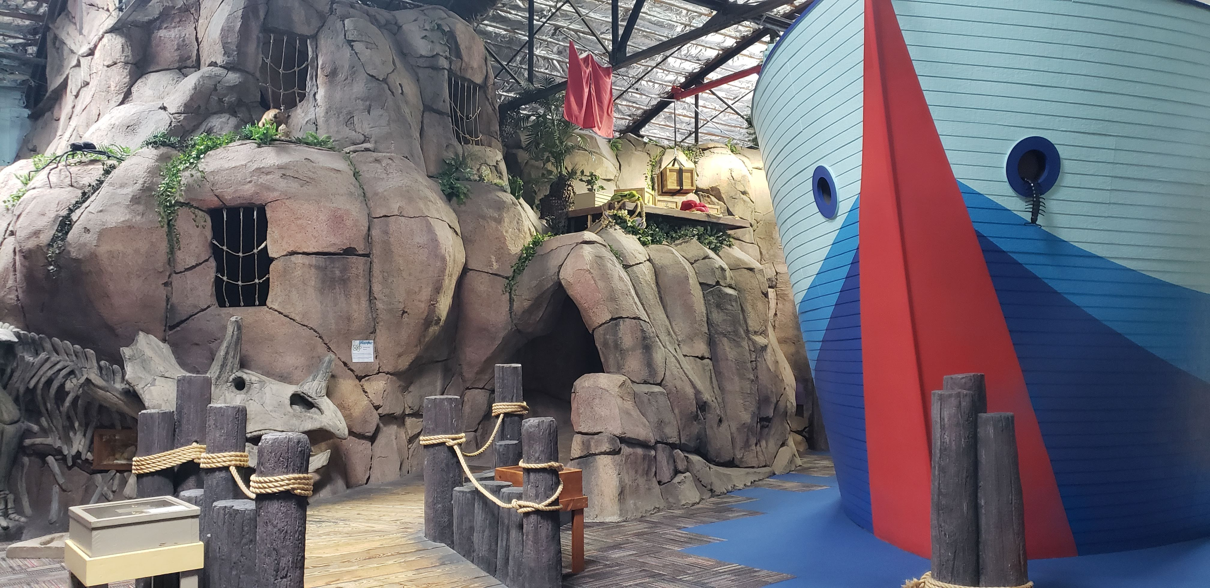 Rear view of DSP Ship in Discovery Landing